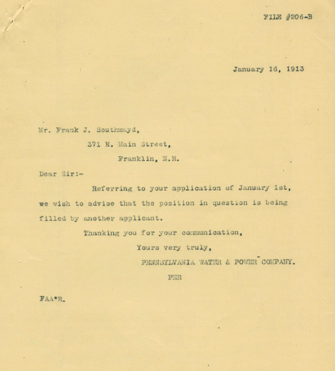 Rejection (ding letter) of job application letter from Frank J. Southmayd to Pennsylvania Power and Light (PPL) January 16, 1913